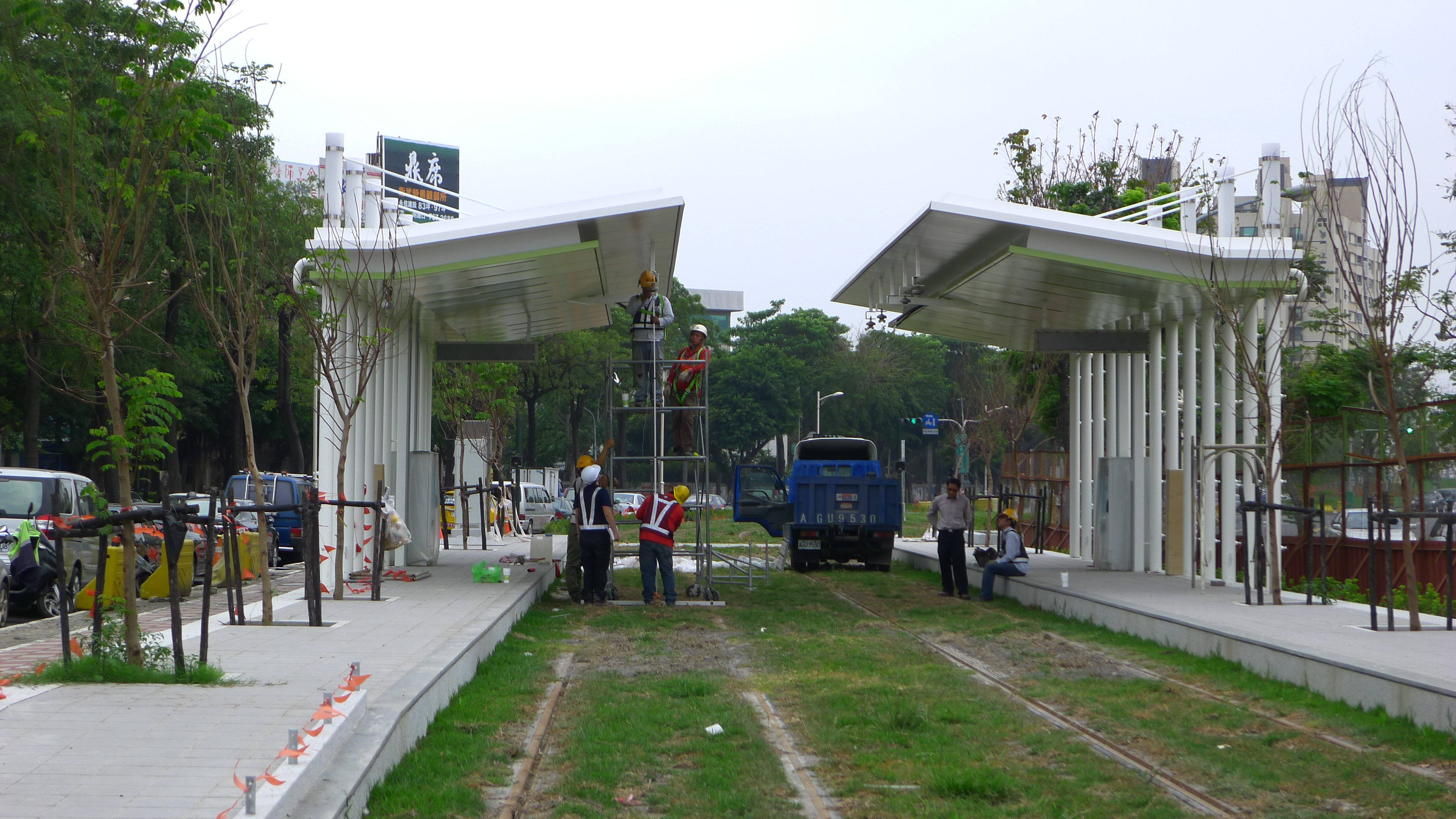 KMRT Circular Line C1 Station